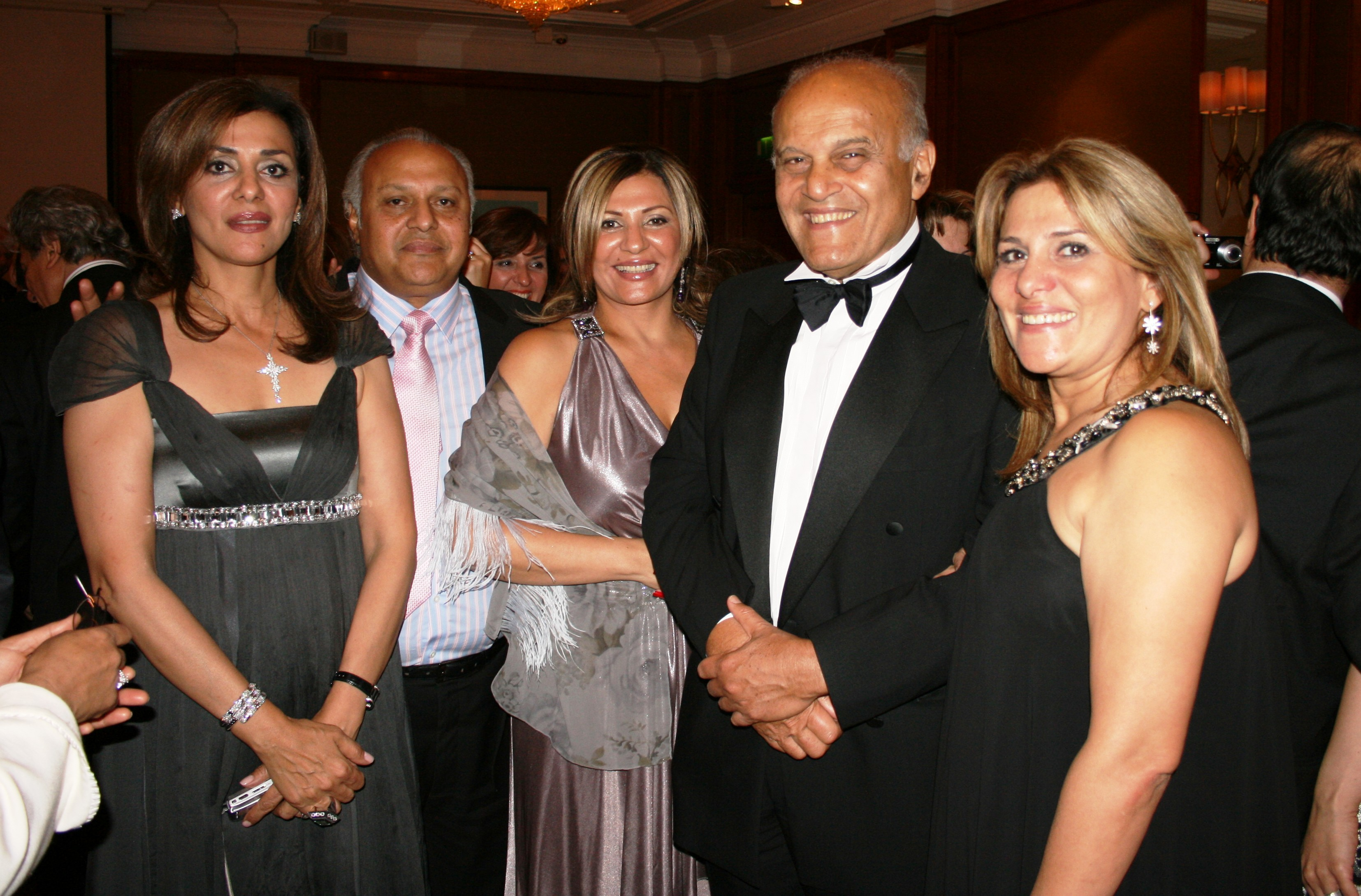 Magdi Yacoub with ??